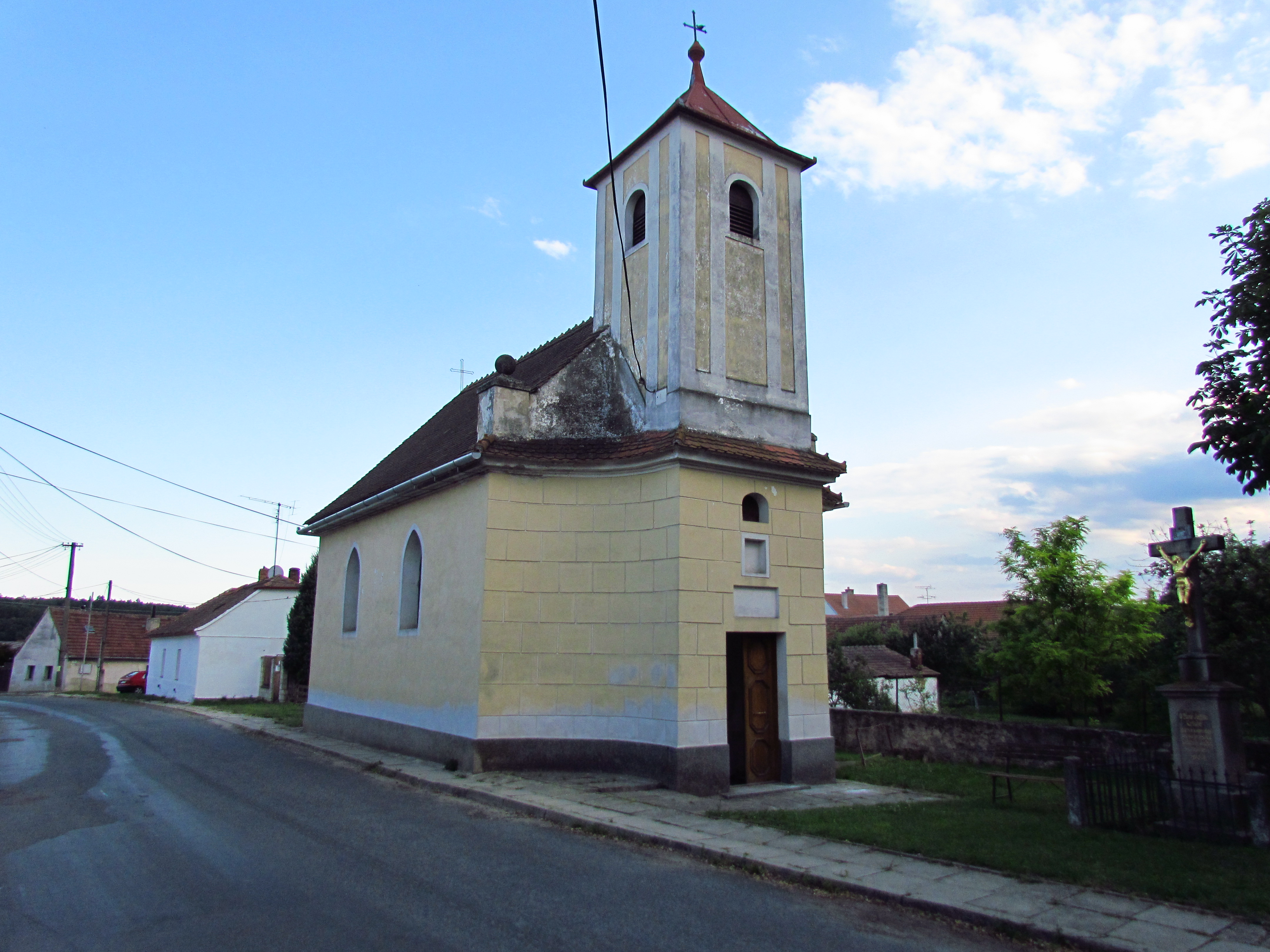 Overview of Holy Trinity Chapel in Slatina, Znojmo District.